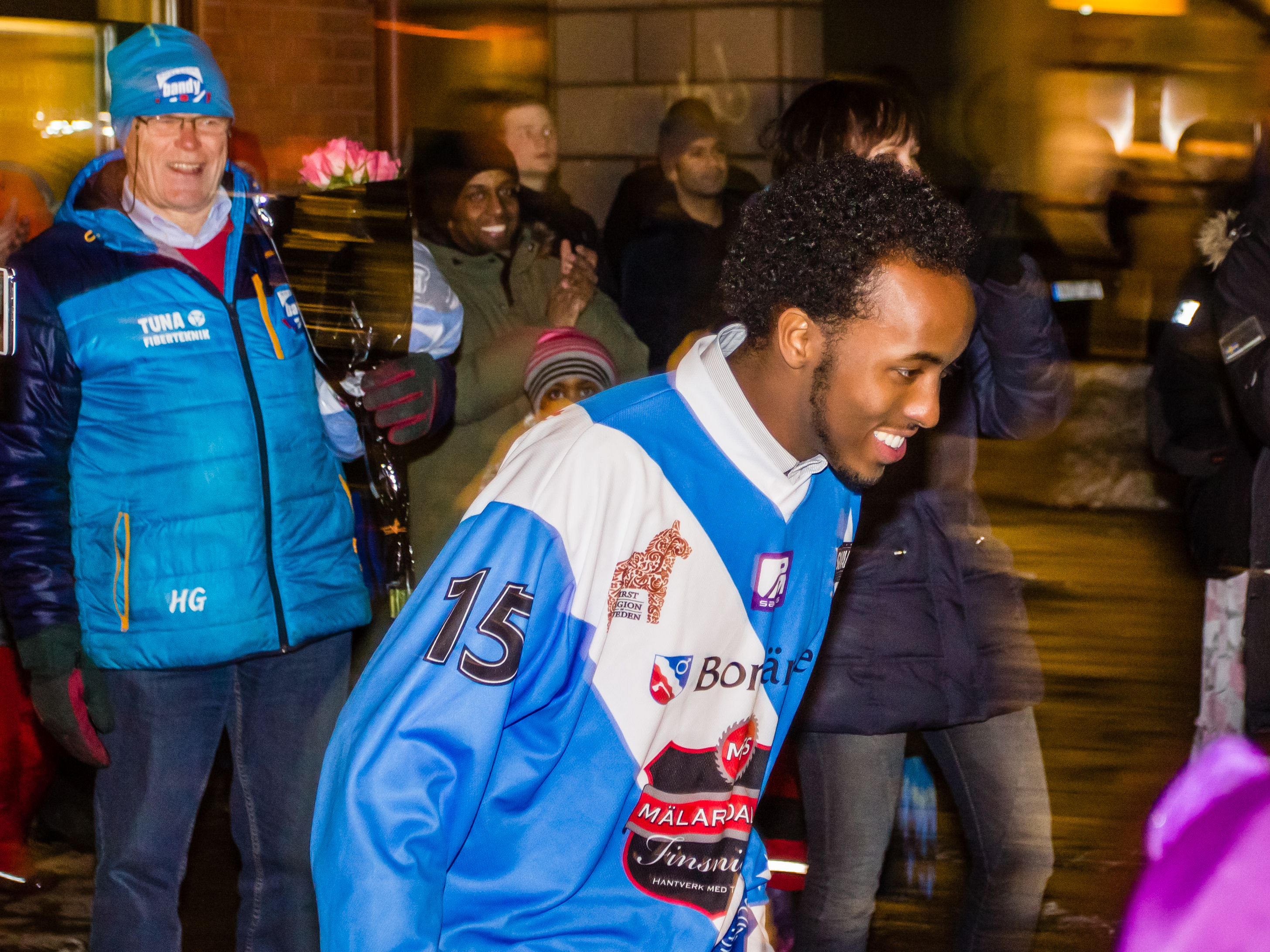 Anwar Hared of Somalia national bandy team at reception in Borlänge after World Championships 2014. They finished last, but became world celebrities. Hared (normally ice hockey player in Aurora Tigers, OJHL) made Somalias first goal in a World Championship – regardless of sport – in the opening game vs Germany 2014.